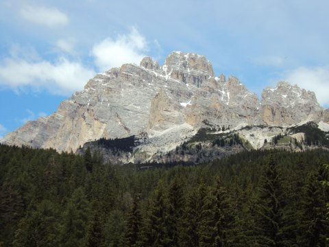 Piz Popena near lake Misurina